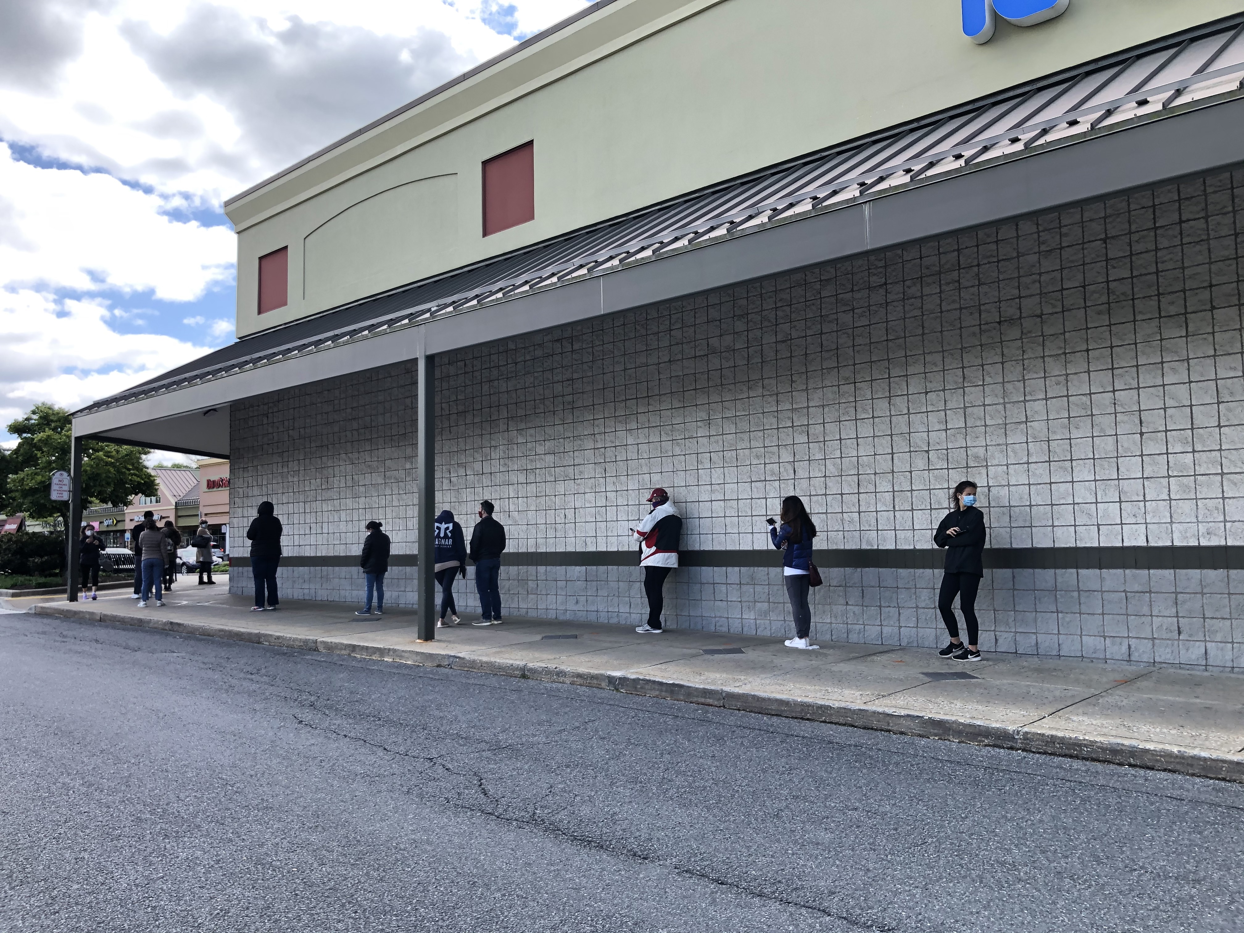 Line of customers waiting to enter the Trader Joe's location in North Bethesda, MD